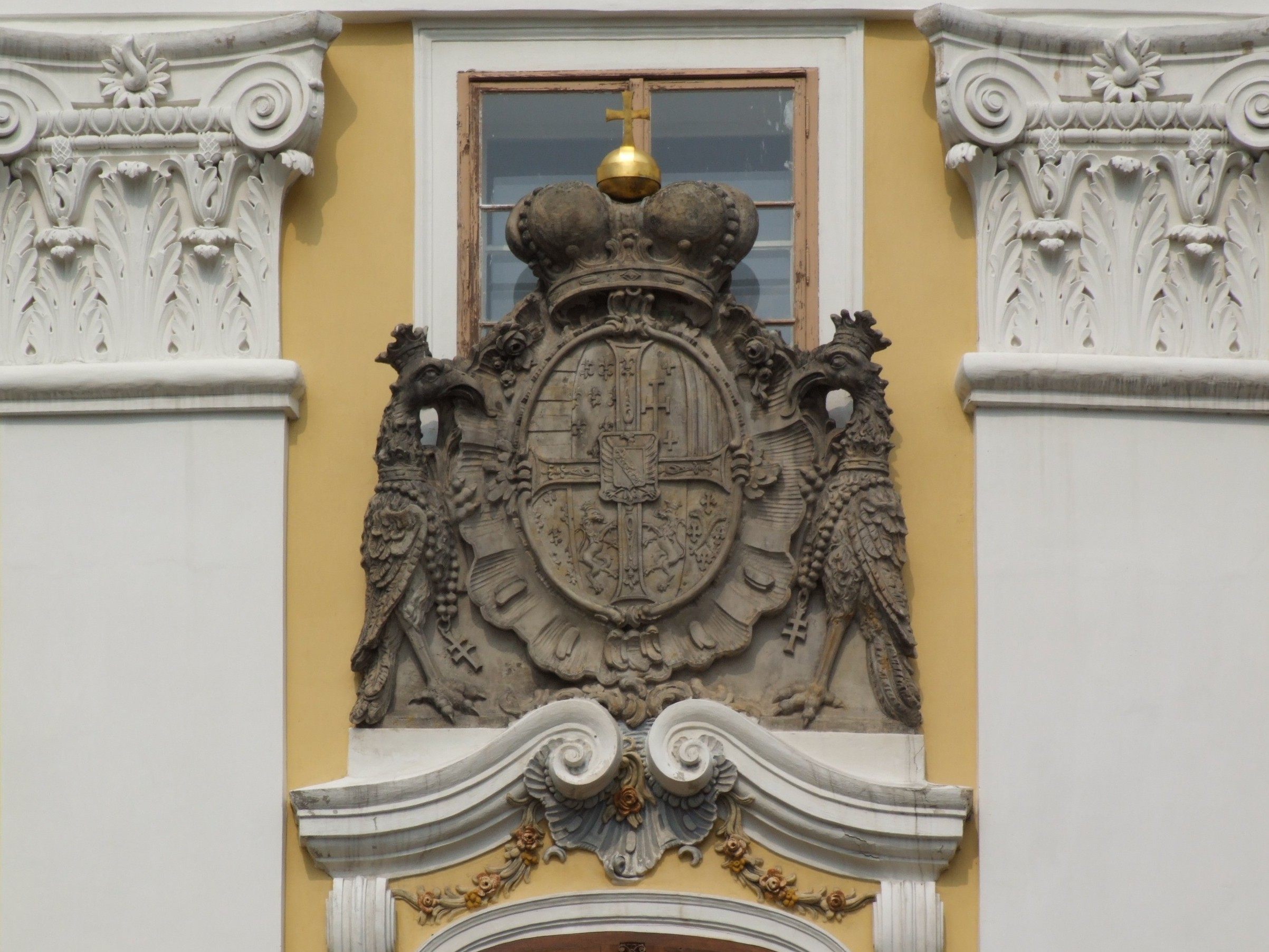 Coat of arms of the Teutonic Order Grand Master (Prince Charles Alexander of Lorraine) from XVIII century - Bruntal, Czech Silesia